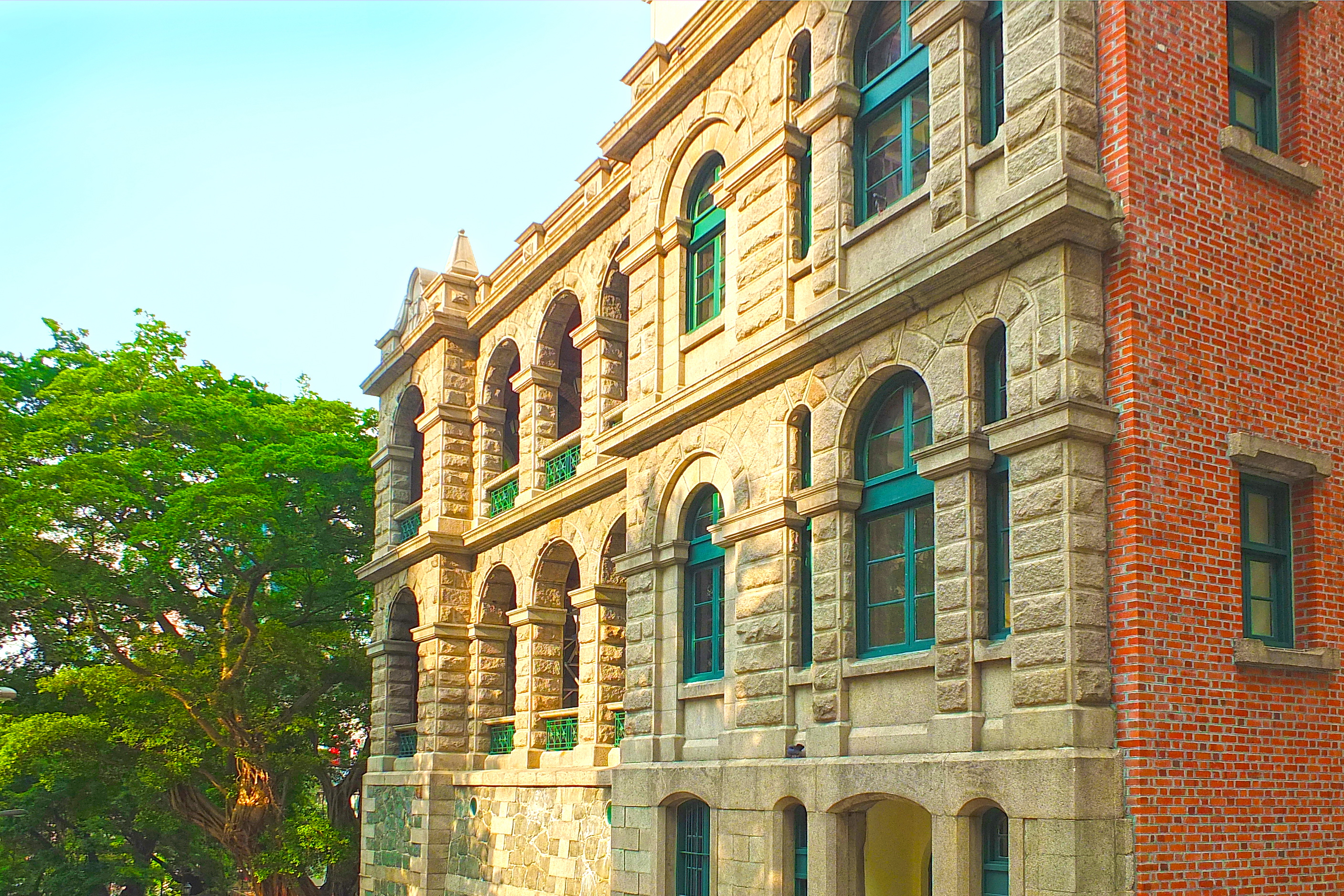 The Old Mental Hospital on High Street, widely believed by locals to be "The Ghost Building"